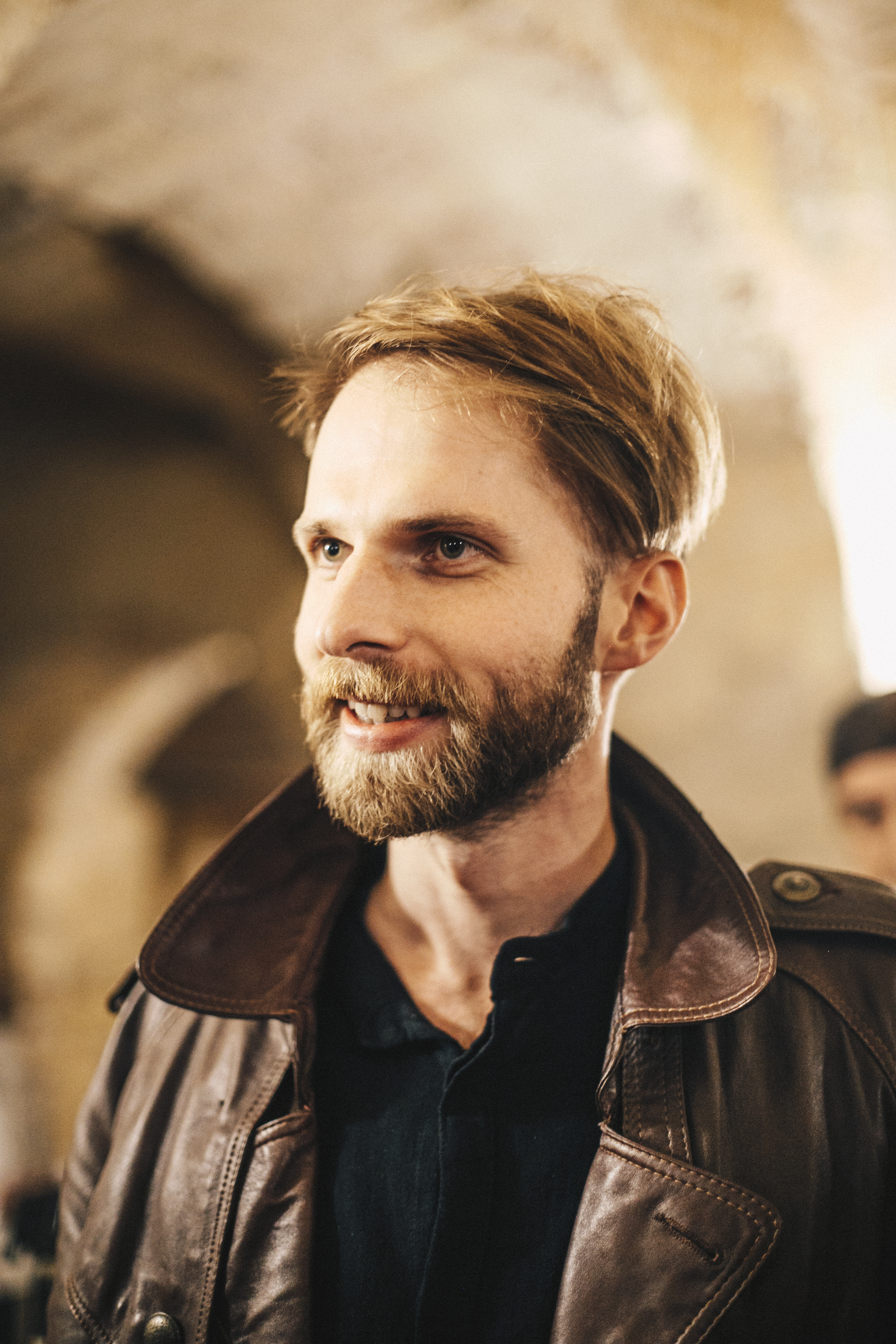 Composer